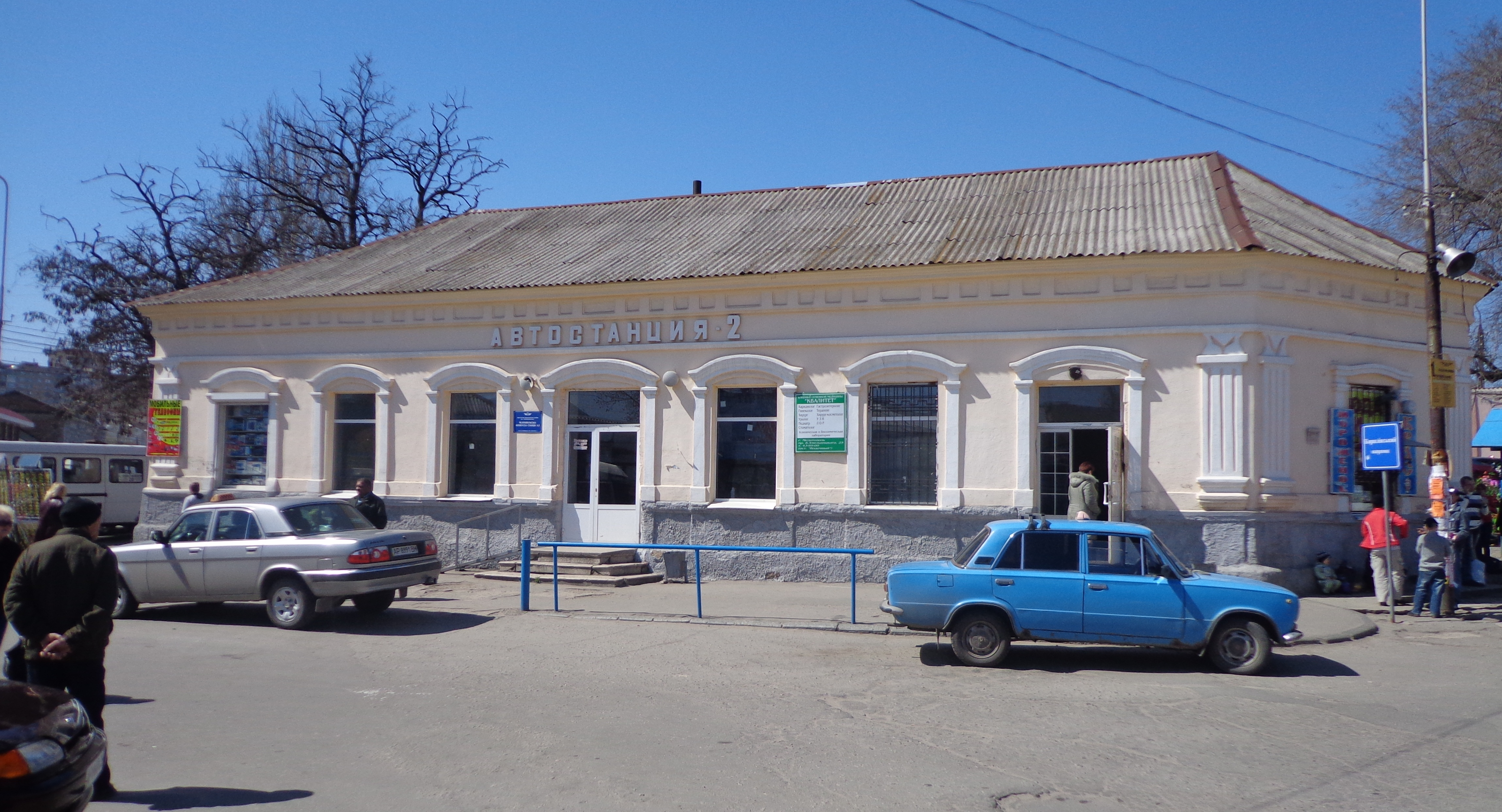 Bus Station Number 2, Melitopol, Zaporizhia Oblast, Ukraine